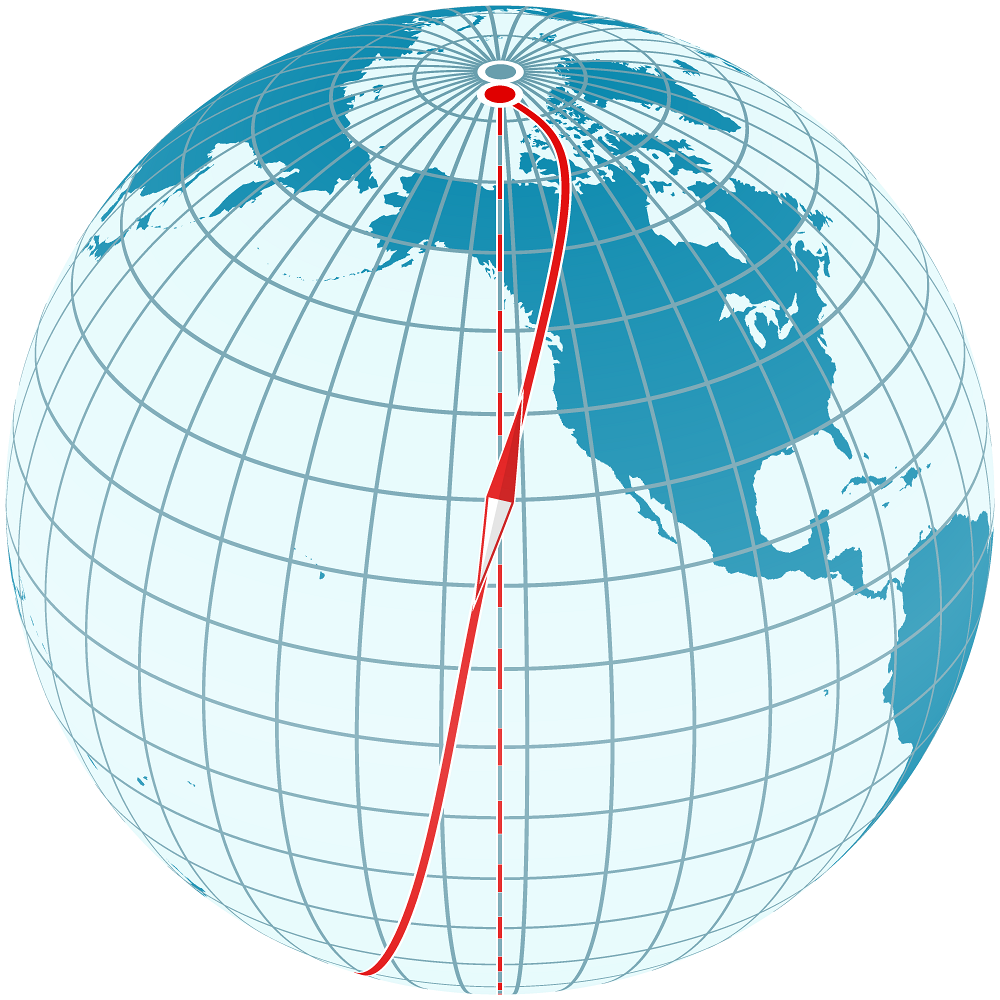 The diagram shows a magnetic meridian of the Earth's magnetic field. It is centered on the point at latitude 30° and longitude -133.16°. The magnetic meridians (not to be confused with magnetic field lines) follow the directions shown by a magnetic compass, that is, they follow the direction of the horizontal component of the field lines in the vicinity of the Earth's surface and thus show the shape of the field. The angle between the magnetic meridians (red) and the geographic meridians (blue, running precisely north-south) is the magnetic declination. The diagram demonstrates the irregularities of the Earth's magnetic field and the fact that in general compasses point neither towards the geographic north pole nor towards the magnetic north pole. Currently (2010) the longitude of the arctic magnetic pole is -133.16°. So for all points on the geographic meridian -133.16° (shown as a red-blue line) the magnetic and the geographic pole lie in precisely the same direction. If compasses were always pointing precisely towards the magnetic pole, a compass sitting on that particular meridian would at the same time point due north, and the declination would be zero. Instead, as the diagram shows, the declination at the compass location is positive and a traveller following the compass would travel in a curved line before arriving at the magnetic pole. The magnetic field was computed using the coefficients of the International Geomagnetic Reference Field for the epoch 2010.